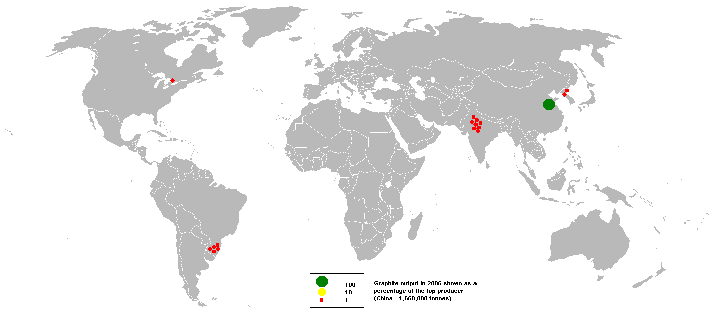 This bubble map shows the global distribution of graphite output in 2005 as a percentage of the top producer (China - 1,650,000 tonnes). This map is consistent with incomplete set of data too as long as the top producer is known. It resolves the accessibility issues faced by colour-coded maps that may not be properly rendered in old computer screens. Data was extracted on 2nd June 2007. Source - Based on :Image:BlankMap-World.png